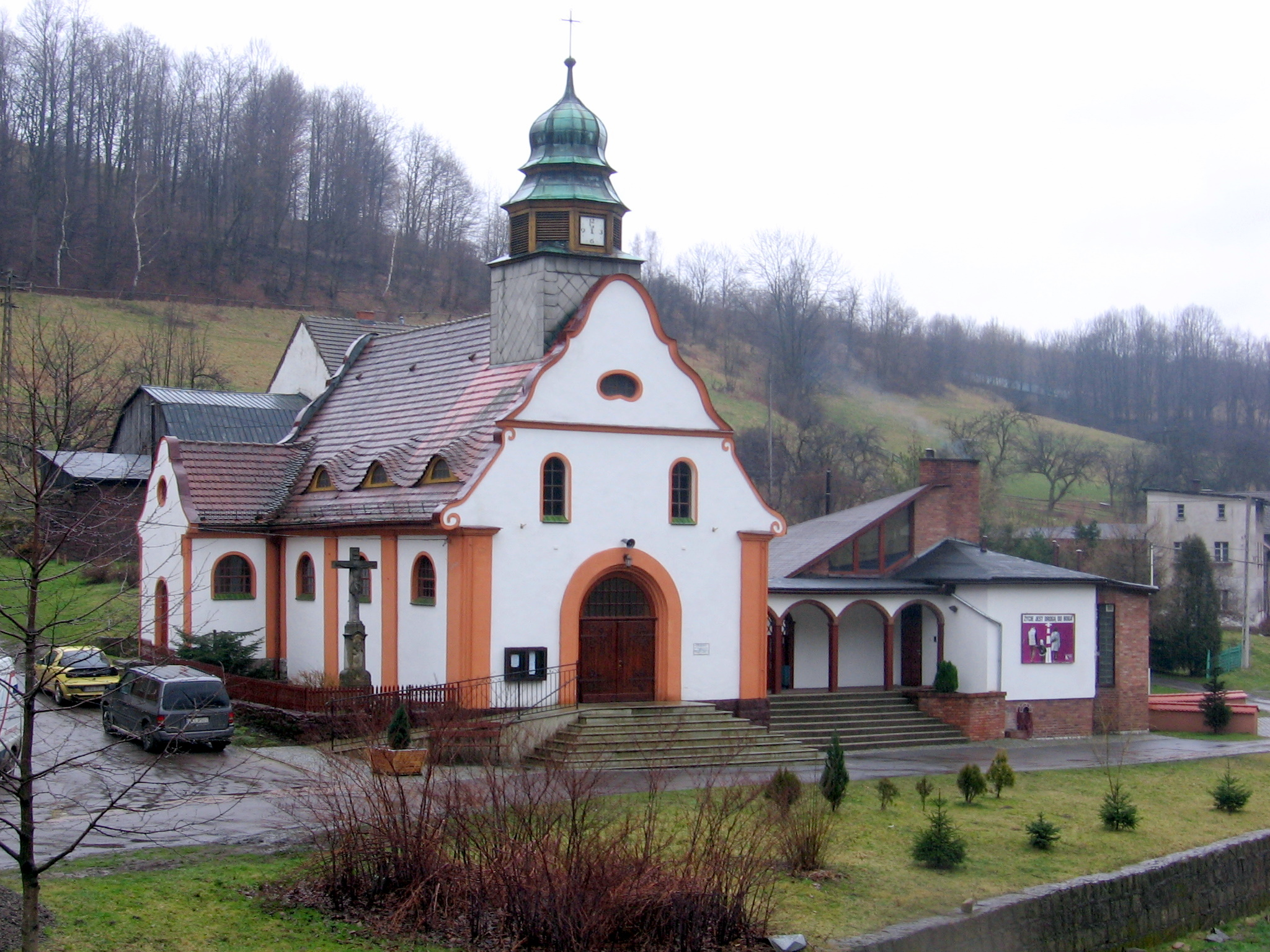 Petrus Canisius church in Włodowice in Kłodzko region, Lower Silesia, Poland